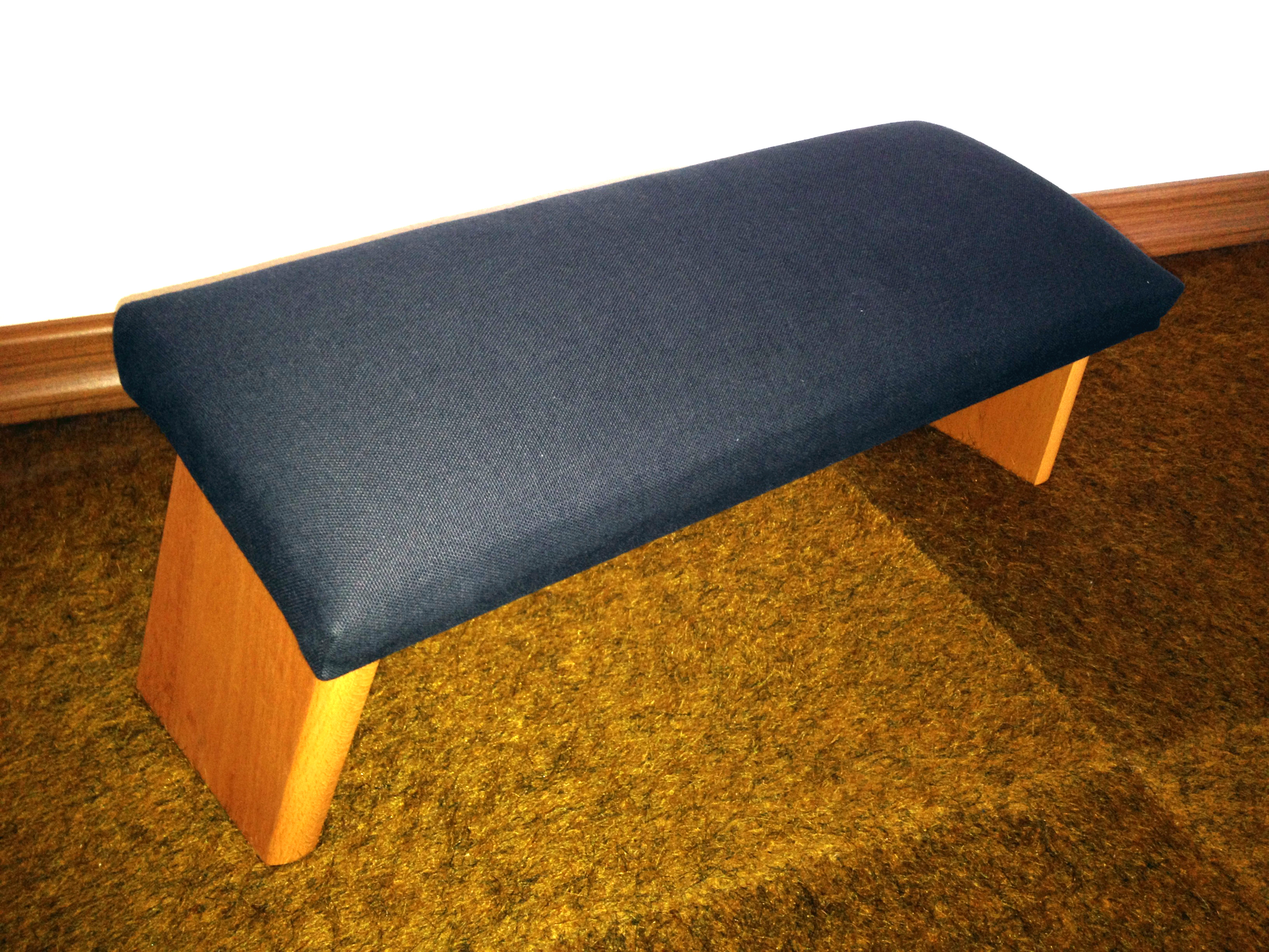 Meditation Bench